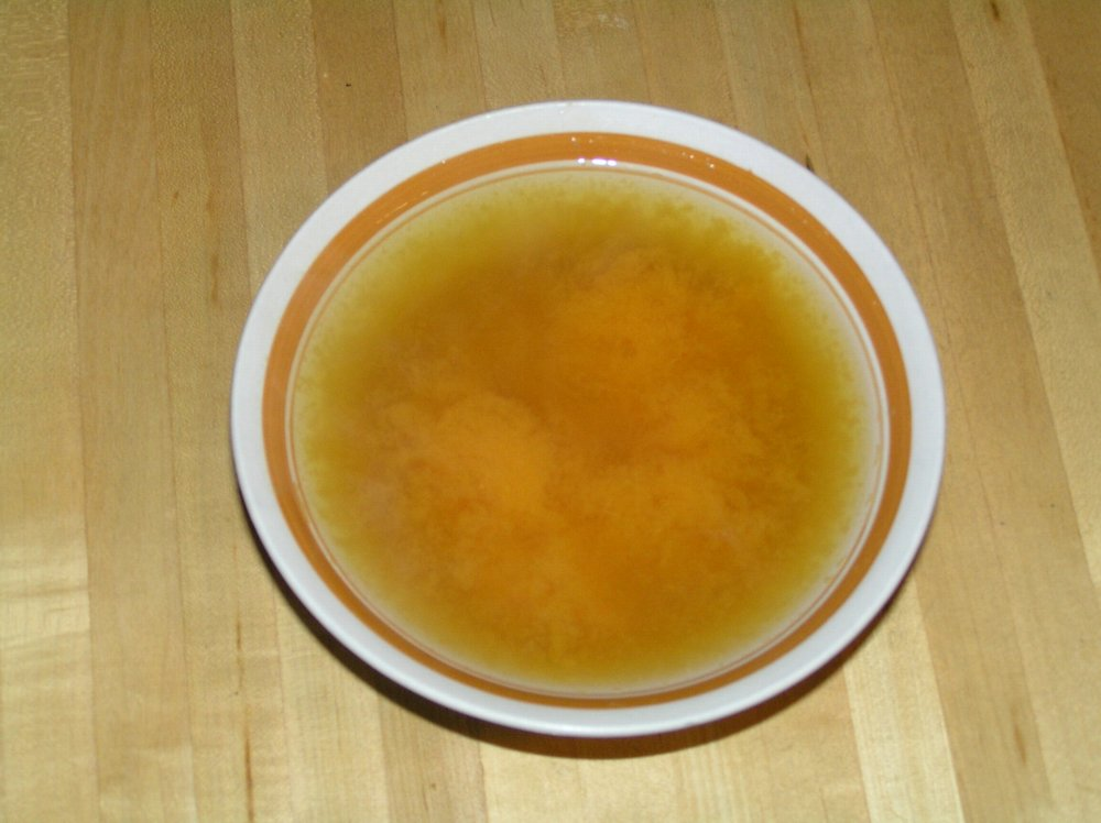 Sweet potato Tongsui